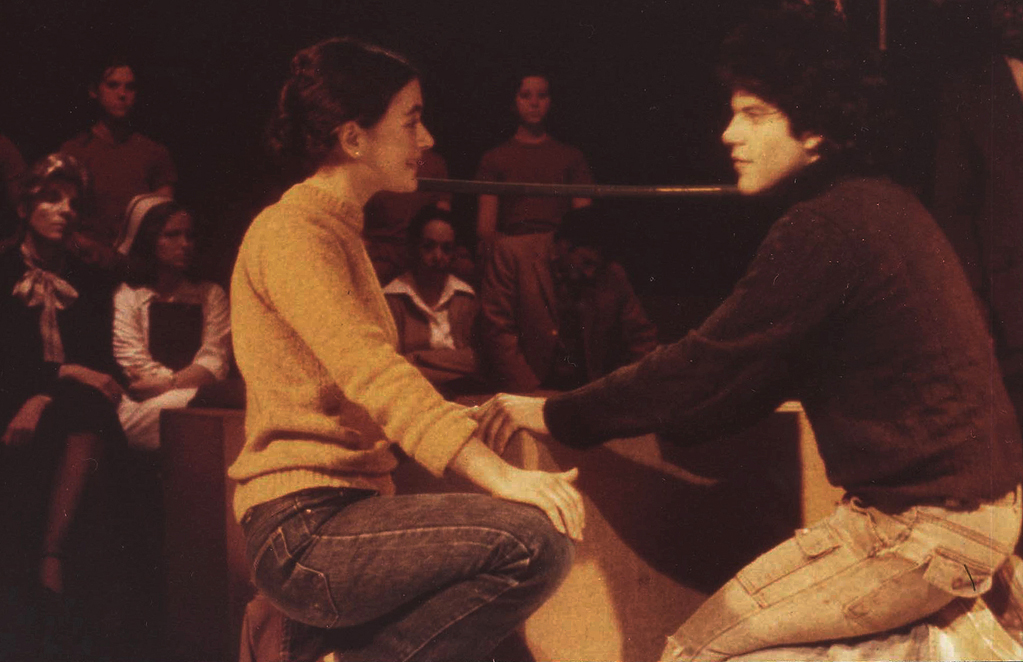 Laren Raher and Brad Mays from Act II of Equus, directed by Brad Mays. May, 1979, Baltimore